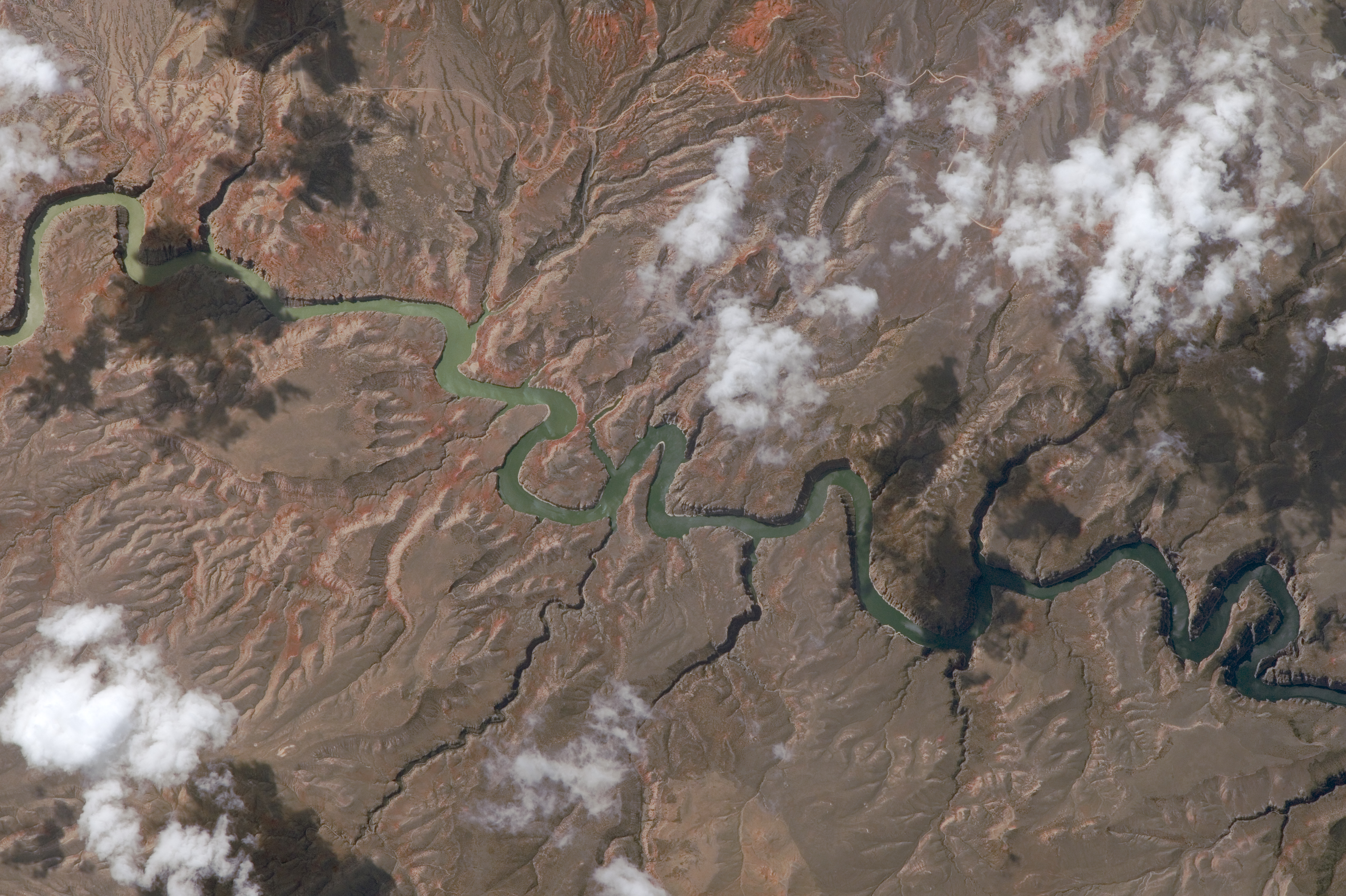 NASA astronaut Scott Kelly on the International Space Station May 6, 2015 tweeted this image out of an Earth observation as part of his Space Geo trivia contest. Scott tweeted this comment and clue: "#SpaceGeo! A serpent is known for deceptive traits, but don't let this snake pull the wool over your eyes. Name it!" Congratulations to @splinesmith for correctly identifying this image first, : #BighornRiver Montana/Wyoming named in 1805 for Bighorn sheep along its banks. He will receive an autographed copy of this image when Scott returns to Earth in March 2016. Learn more about #SpaceGeo and play along every Wednesday for your chance to win